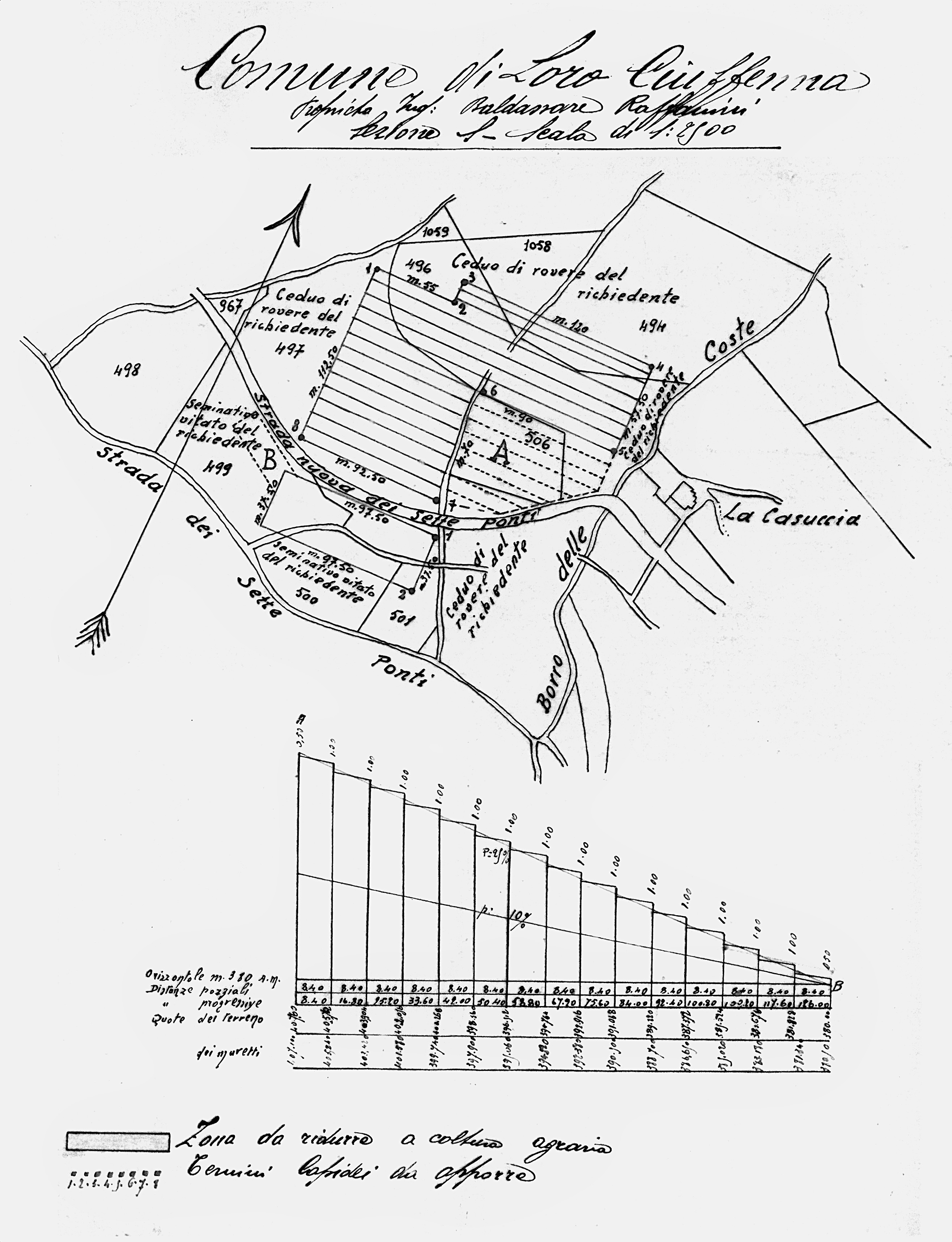 Vigna delle Sanzioni Building Project